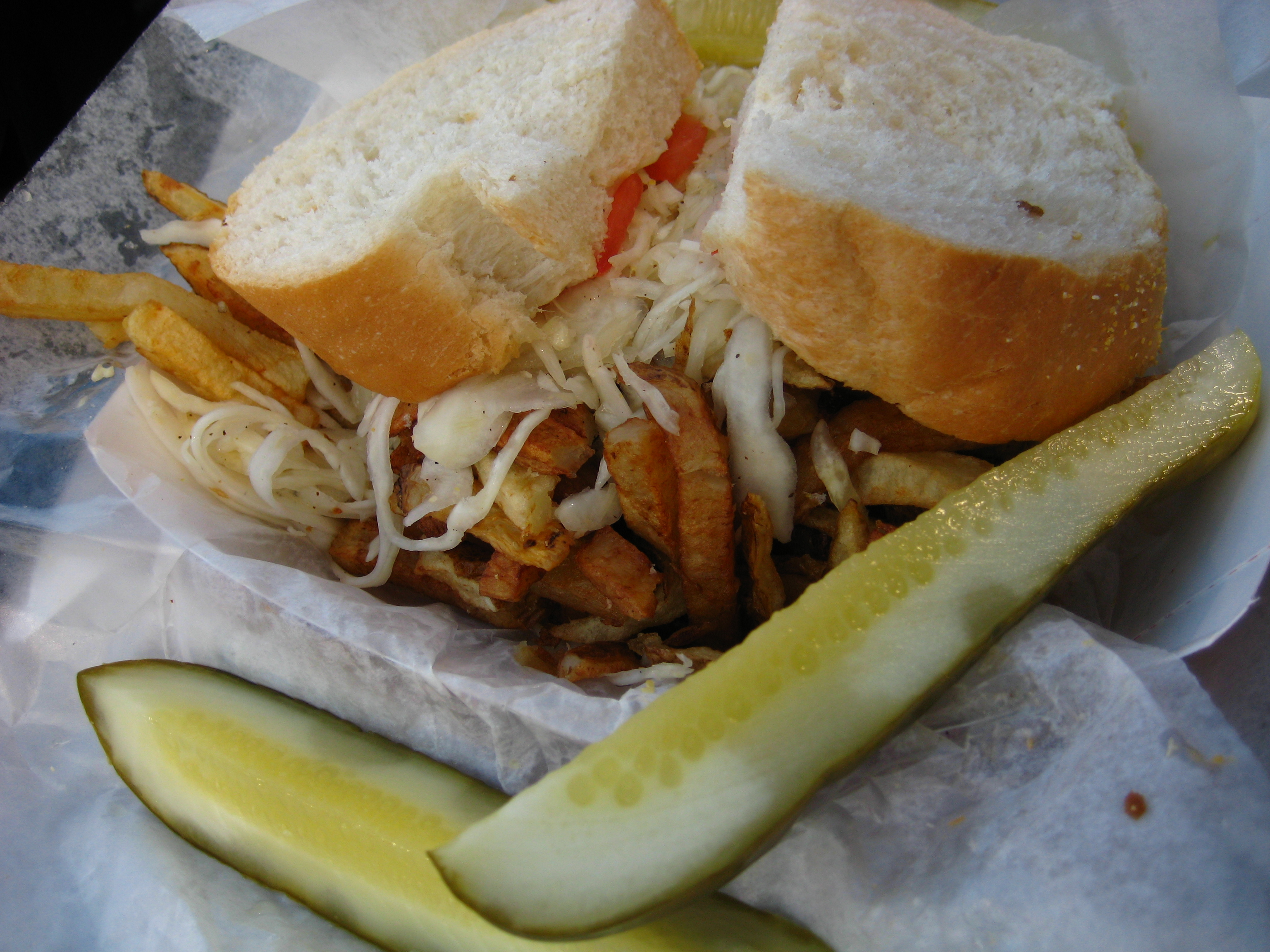 A sandwich from Primanti Bros resturant, in Pittsburgh, Pennsylvania